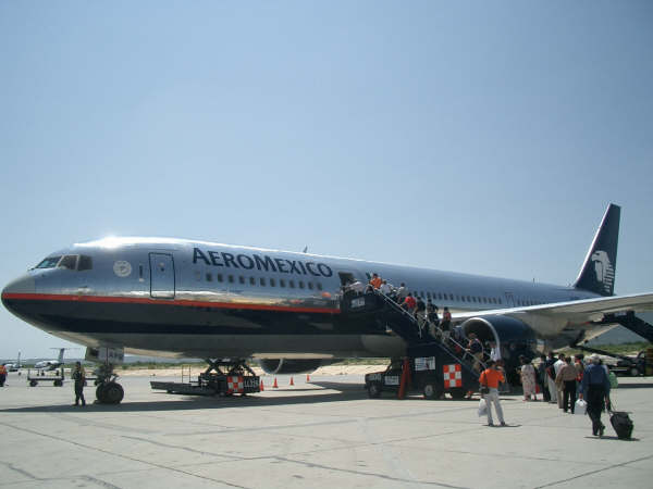 AeroMexico Boeing 767-3Q8/ER with passengers boarding at Los Cabos International Airport